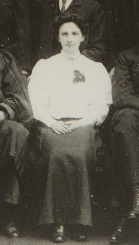 Rona Robinson pictured 1905 (aged 21), crop of graduating class photo